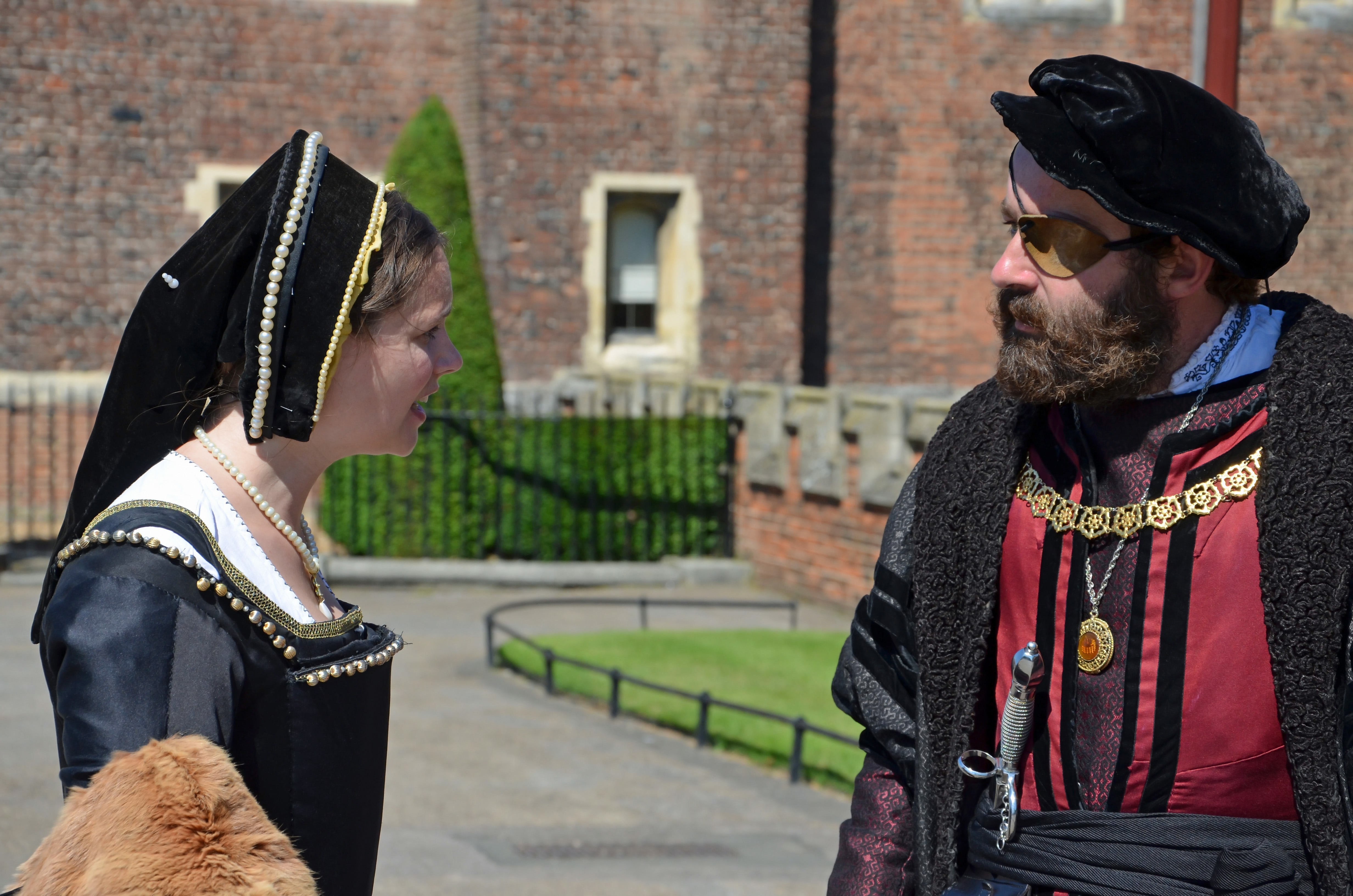 'Anne Boleyn' and 'Sir Francis Bryan' argue about the Reformation at Hampton Court Palace.